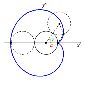 Construction of the cardioid curve